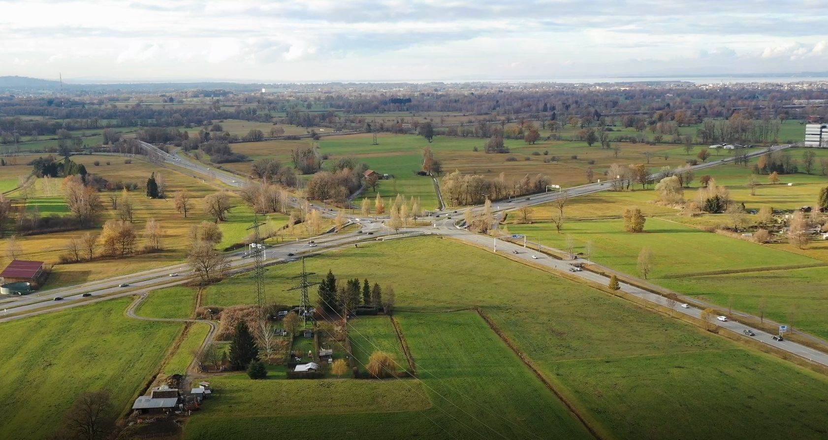 Roundabout Dornbirn North at the L190 crossing to the Rheintal-Autobahn A14 (highway) and the Bregenzerwaldstraße L200 in the direction of the Achraintunnel in Vorarlberg, Austria.